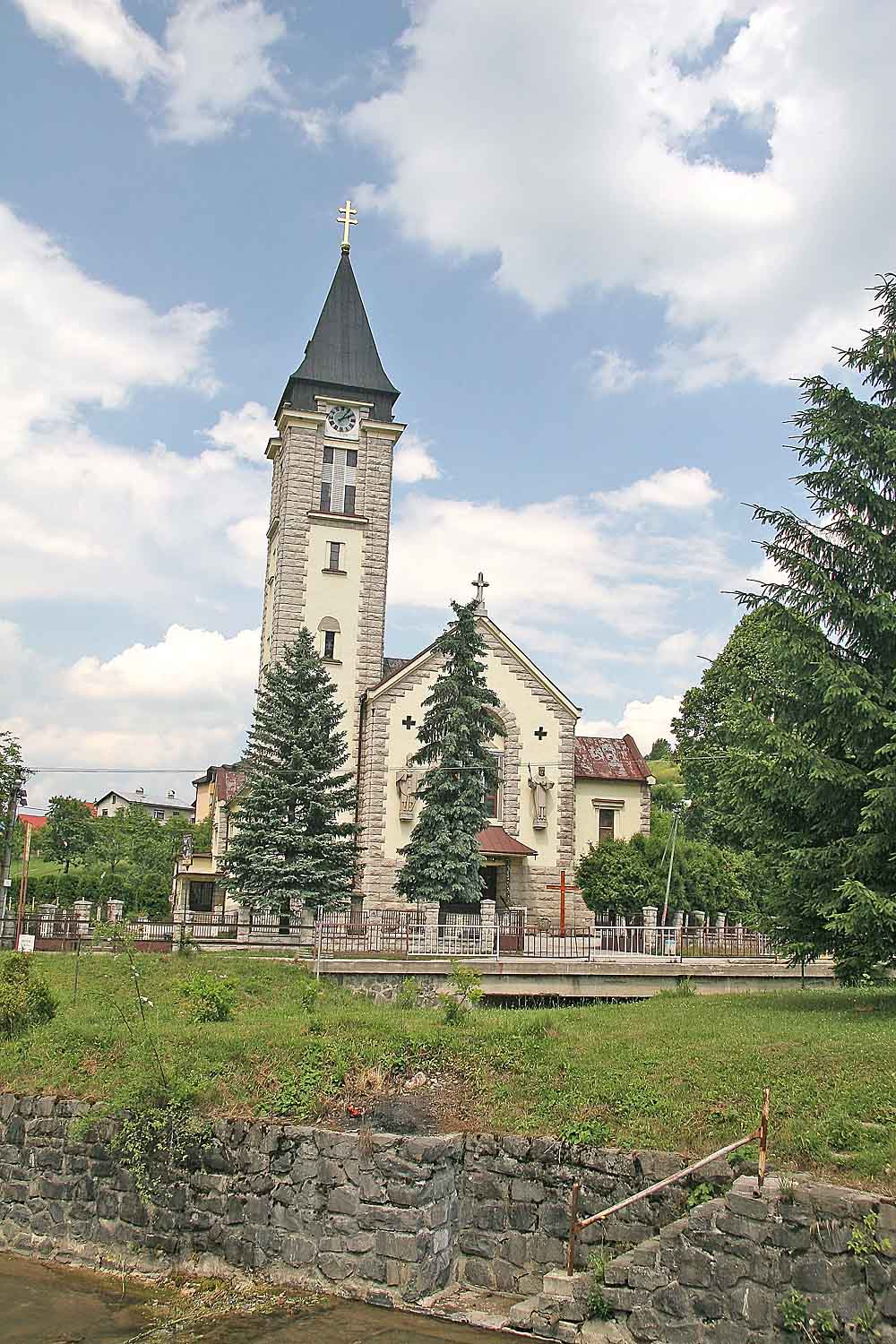 Terchová, Church of Sain Cyril and Metoděj, district Žilina, Slovakia This medium shows the protected monument with the number 511-1383/0 in the Slovak Republic.